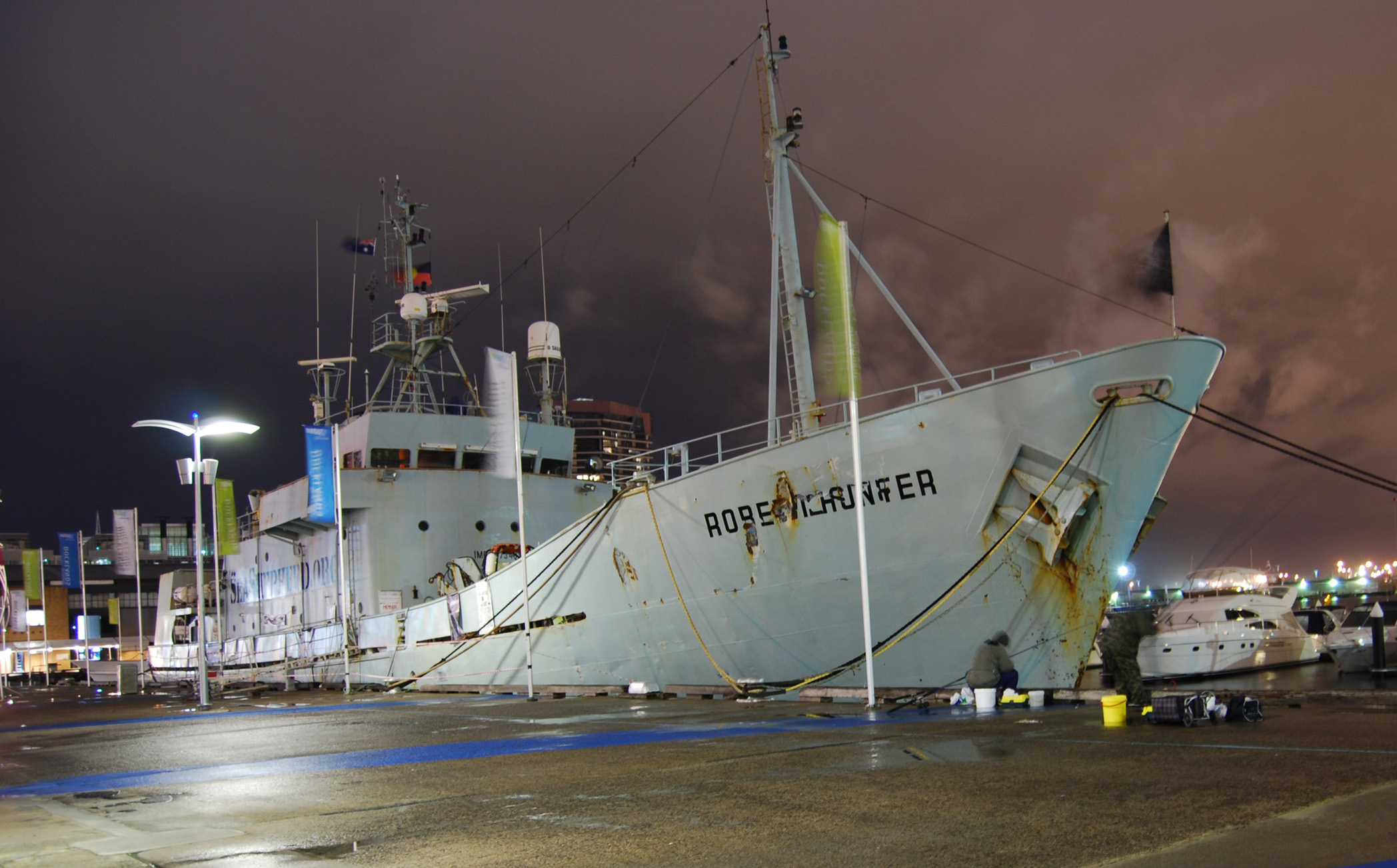 RV Robert Hunter, a ship of the Sea Shepherd, while at Melbourne Docklands, showing some damage from being rammed by a Japanese whaling ship. The ship was painted black and renamed MV Steve Irwin before heading off for its next mission.